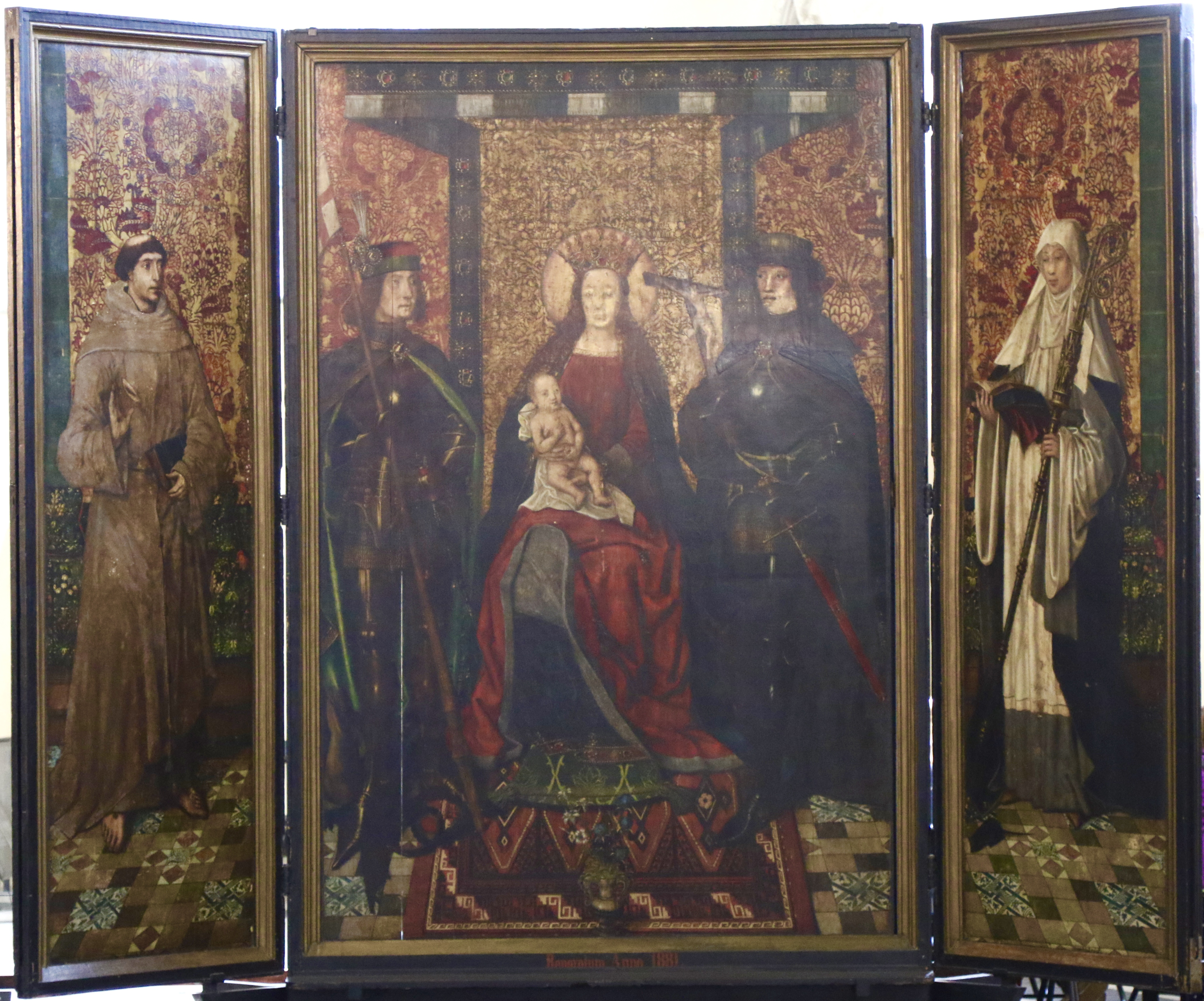 The Altarpiece of the Altar of the Virgin Mary of the Brotherhood of the Black Heads. Master of the St Lucy Legend from Bruges Before 1493